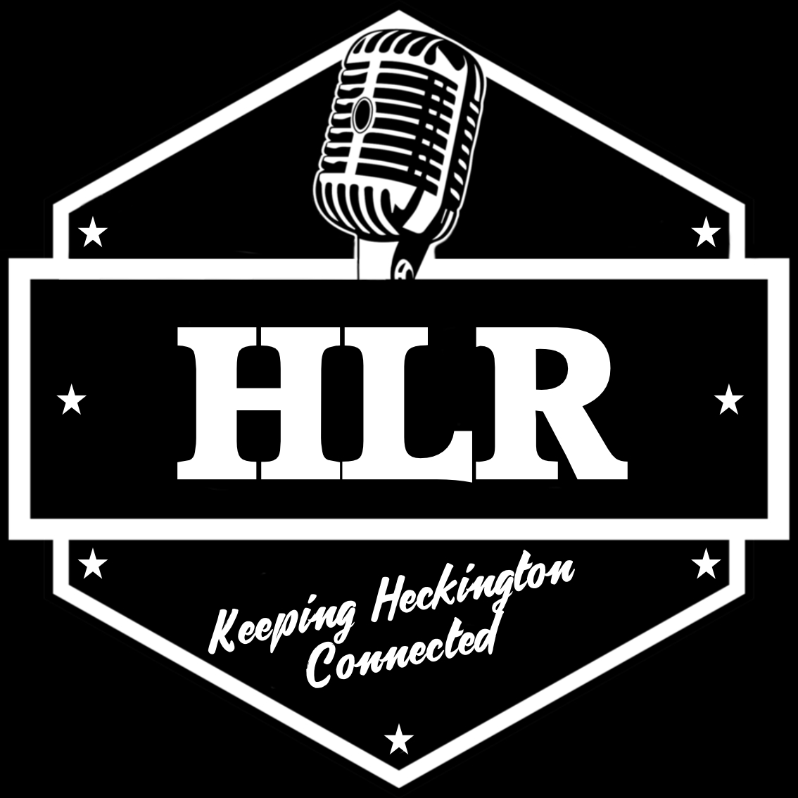 This is the logo of Heckington Living Community Radio, created by Andy Mellett Brown